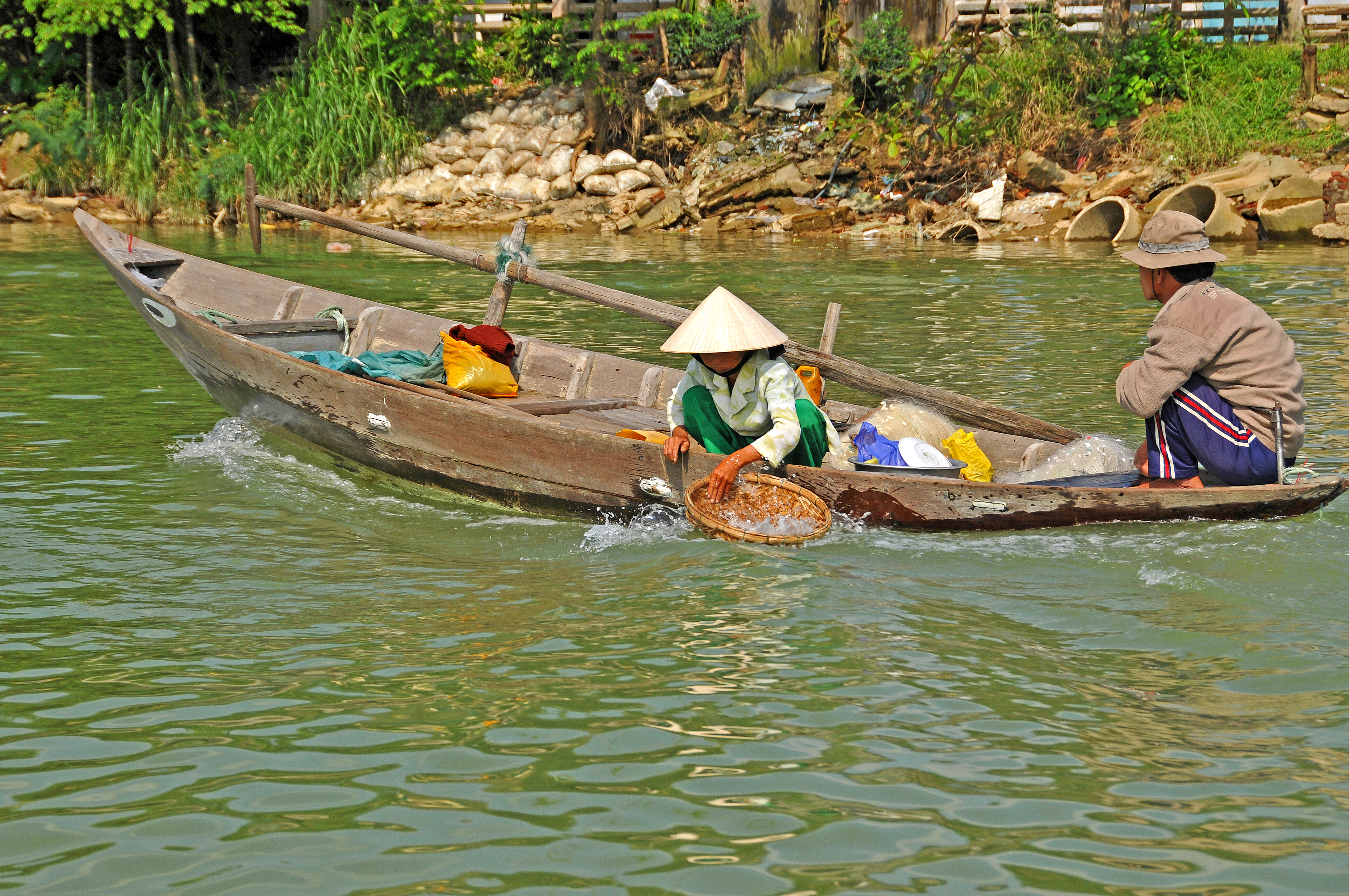 PLEASE, NO invitations or self promotions, THEY WILL BE DELETED. My photos are FREE to use, just give me credit and it would be nice if you let me know, thanks. The lady was cleaning up as they got closer to the market place. Hoi An, Vietnam